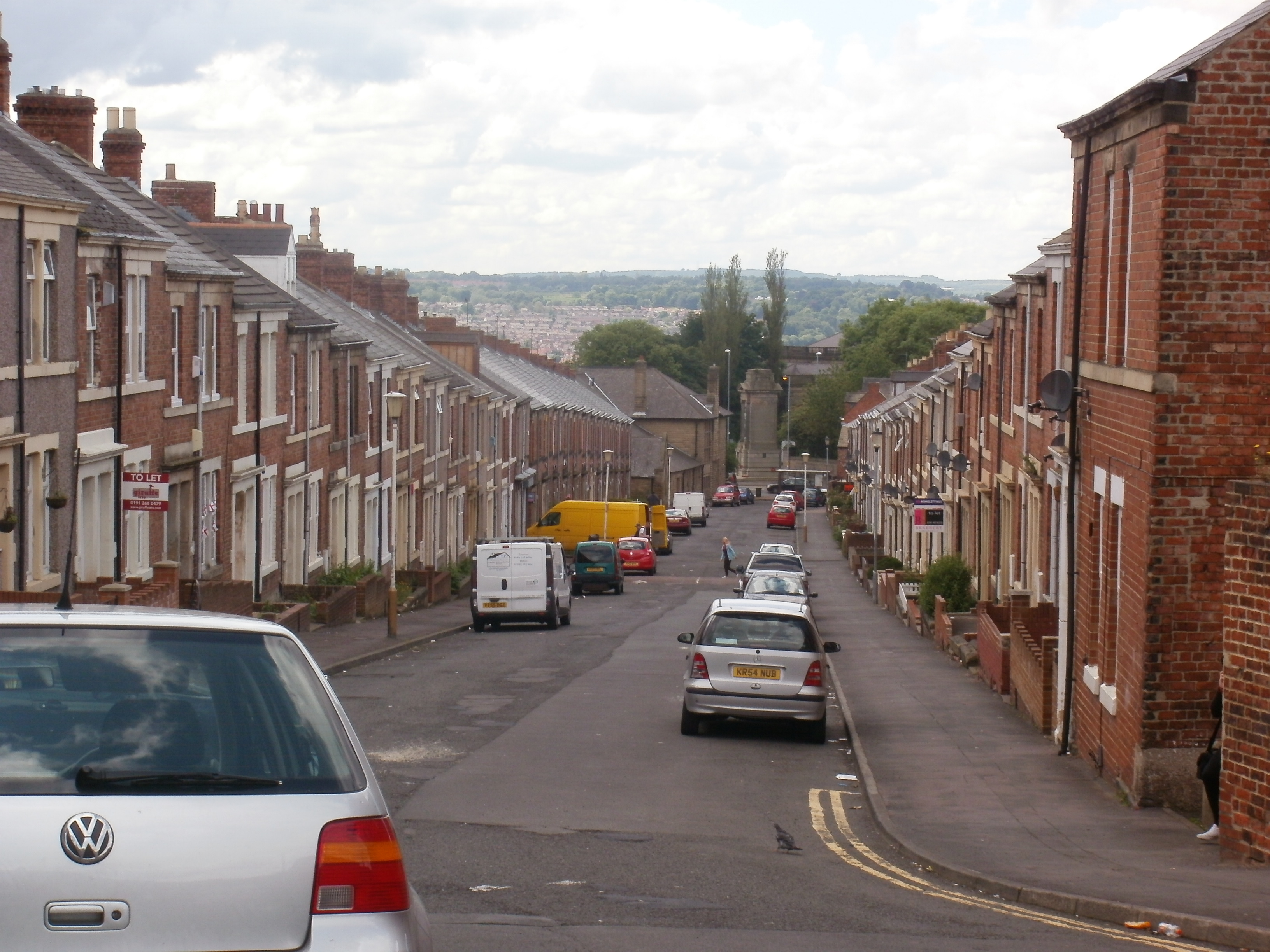 Typical Tyneside flats on both side and a fine view of western Gateshead beyond